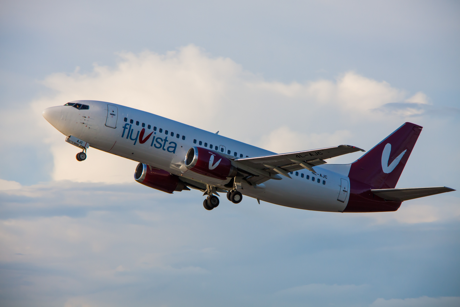 FlyVista Boeing 737-300 taking off from Kiev Zhulyany Airport